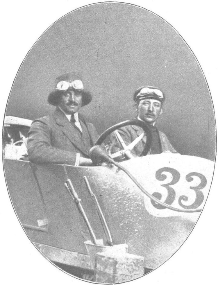 Kaiser Karl, Heinrich Schönfeldt